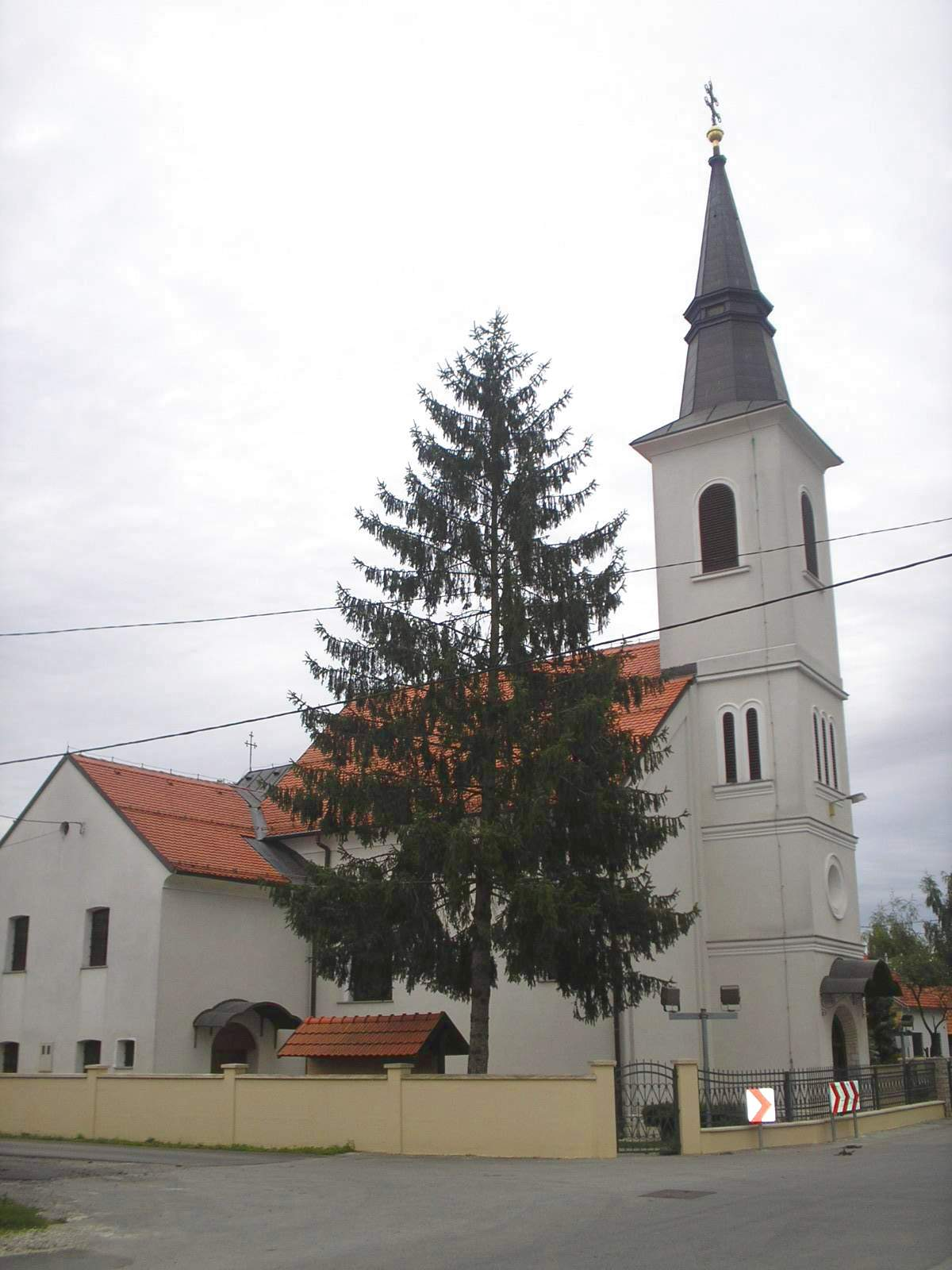 Church of Three Holy Kings, Donja Lomnica, CroatiaHrvatski: Župna crkva sv. Tri kralja u Donjoj Lomnici kraj Velike Gorice, Hrvatska